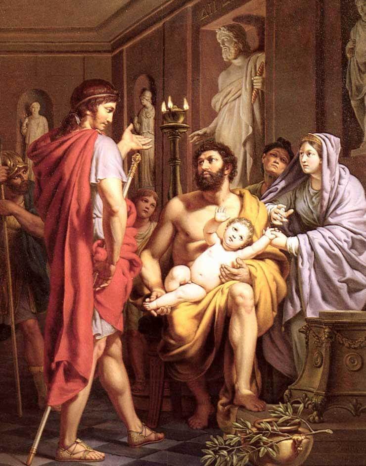 Themistocles and king Admetus, by Pierre Joseph Francois (1759-1851)